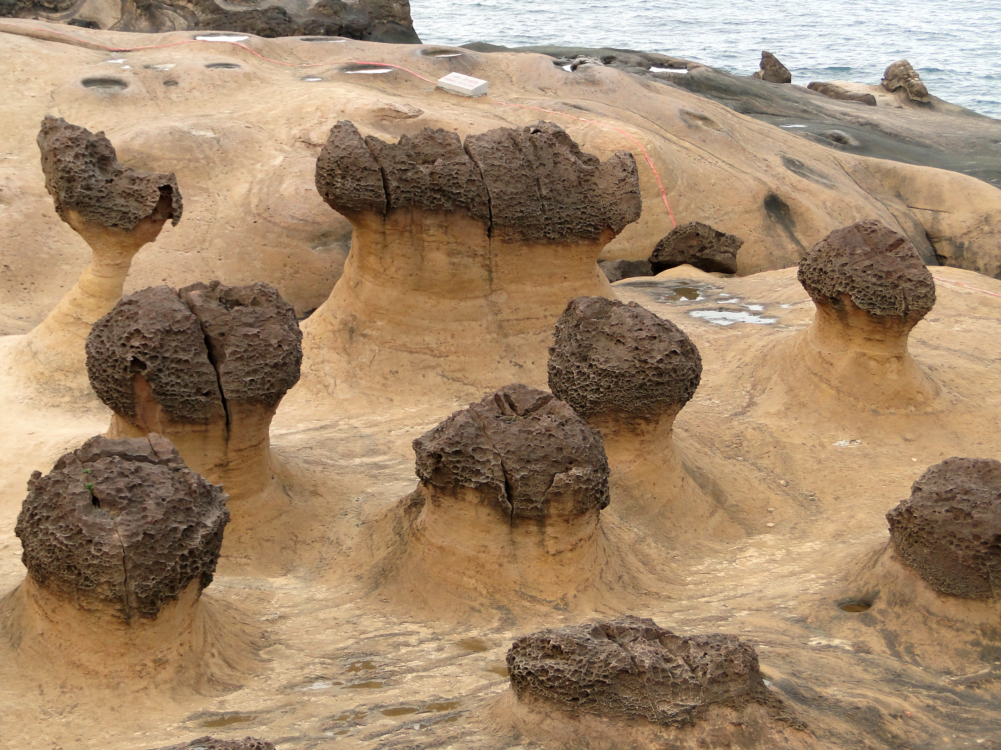 The Mushroom Rock in Yehliu Geopark, on the north coast of Taiwan